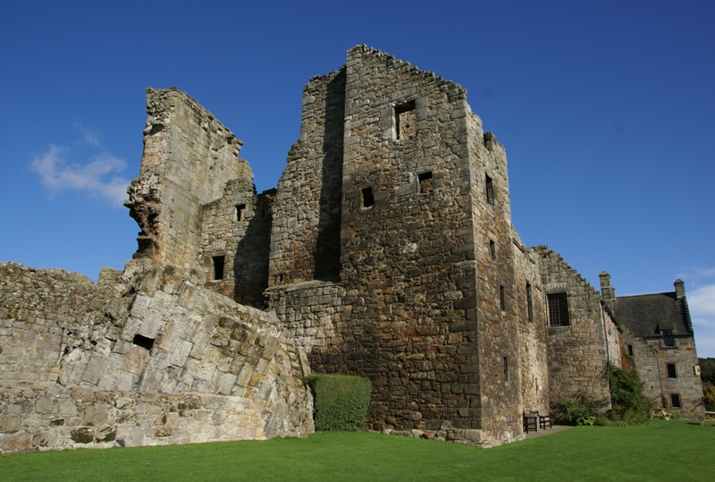 Aberdour Castle, Fife, Scotland. Tower house from south west.